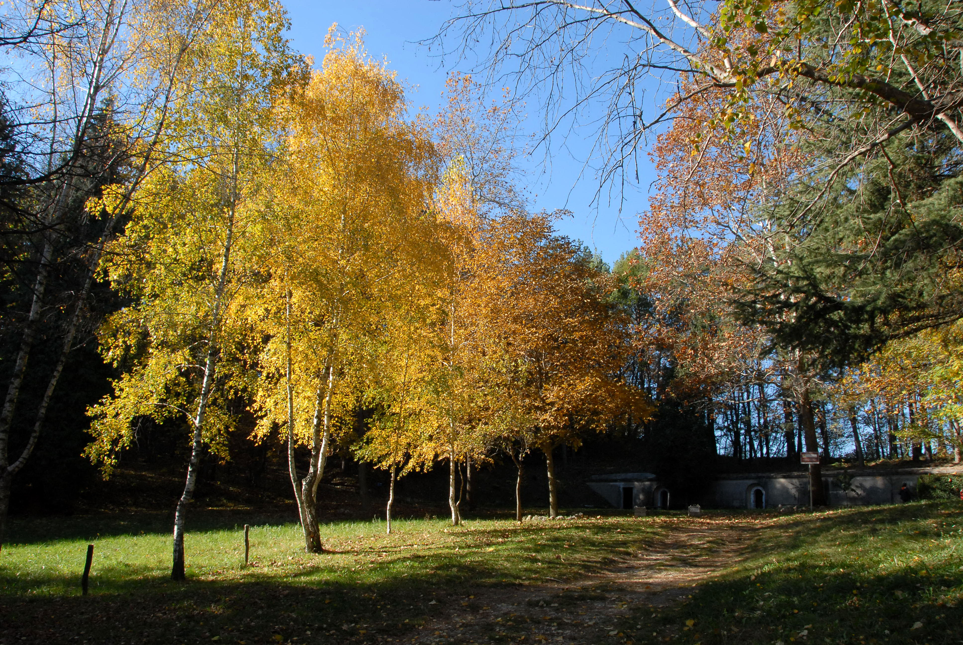 Austro-Hungarian fortress on top of Mount Ragogna in the community of Ragogna, province of Udine, region Friuli Venezia-Giulia, Italy